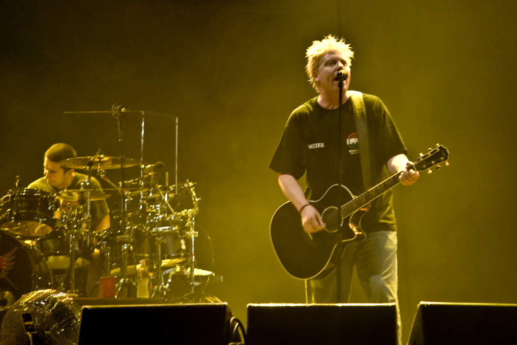 Holland en concierto; sziget festival 2009